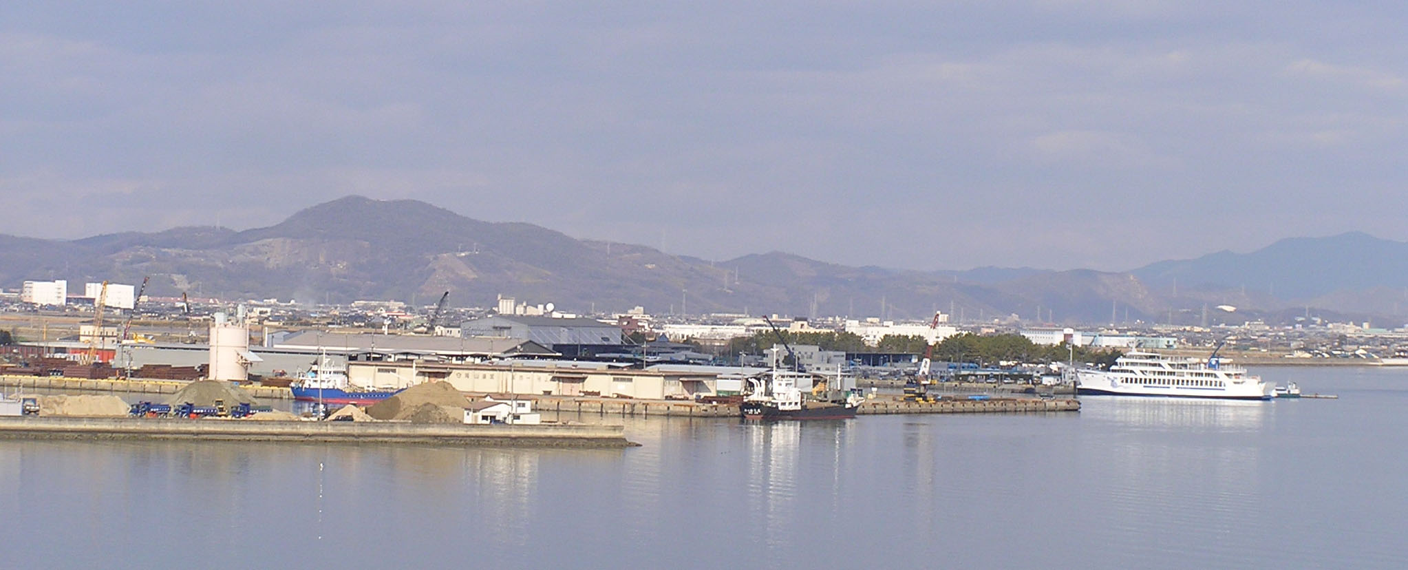 Takashima the district of Okayama port